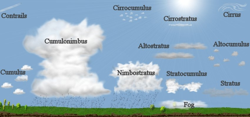 An artistic depiction of various cloud types. These cloud types include contrails (man made), cumulonimbus, cirrocumulus, cirrostratus, cirrus, altostratus, altocumulus, cumulus, nimbostratus, stratocumulus, stratus, and fog.